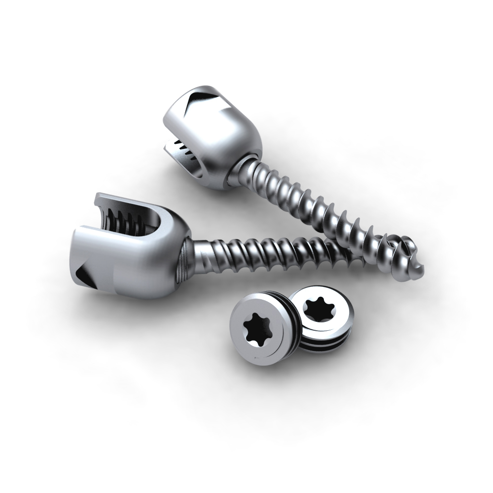 Polyaxial pedicle screw